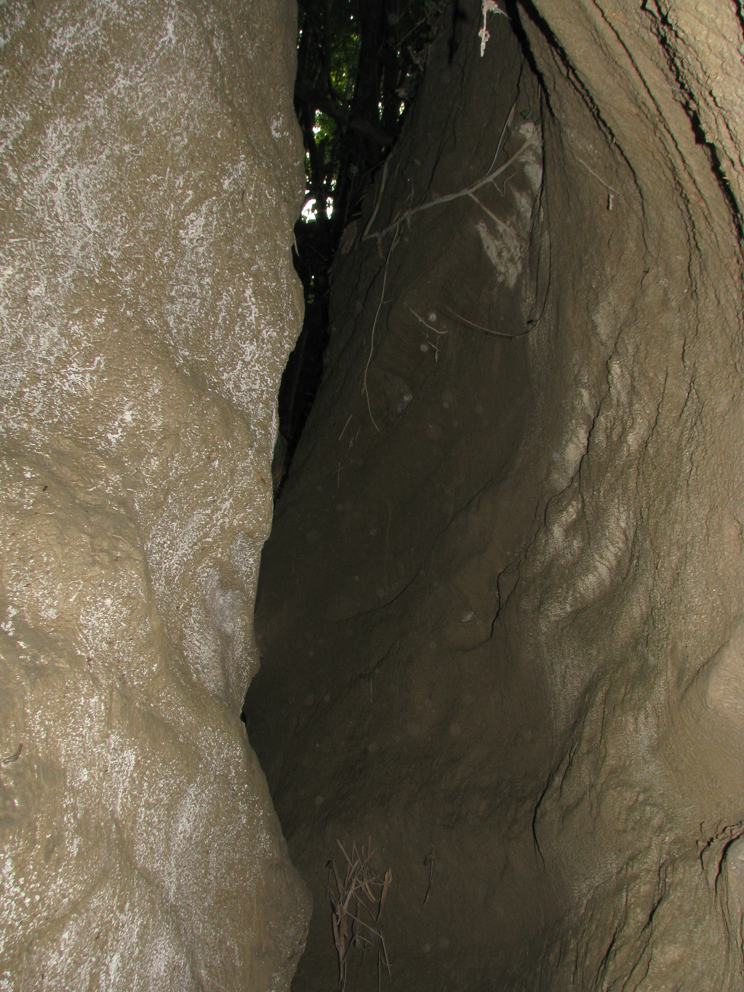 A landscape in Changhua, Taiwan.